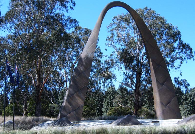 Australia-New Zealand Memorial, Canberra - eastern or 'New Zealand' component.